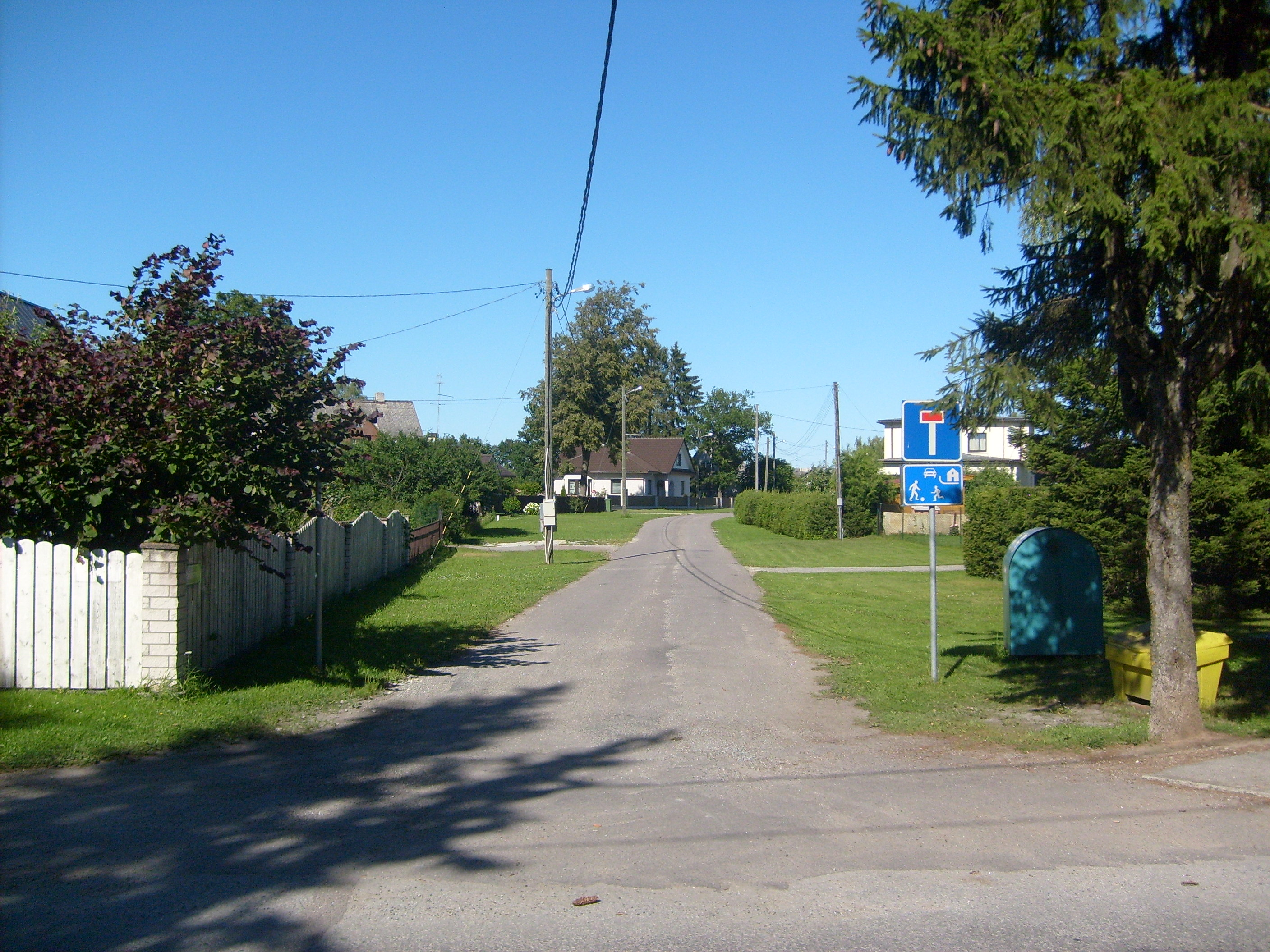 Streets in Saue Town, Estonia